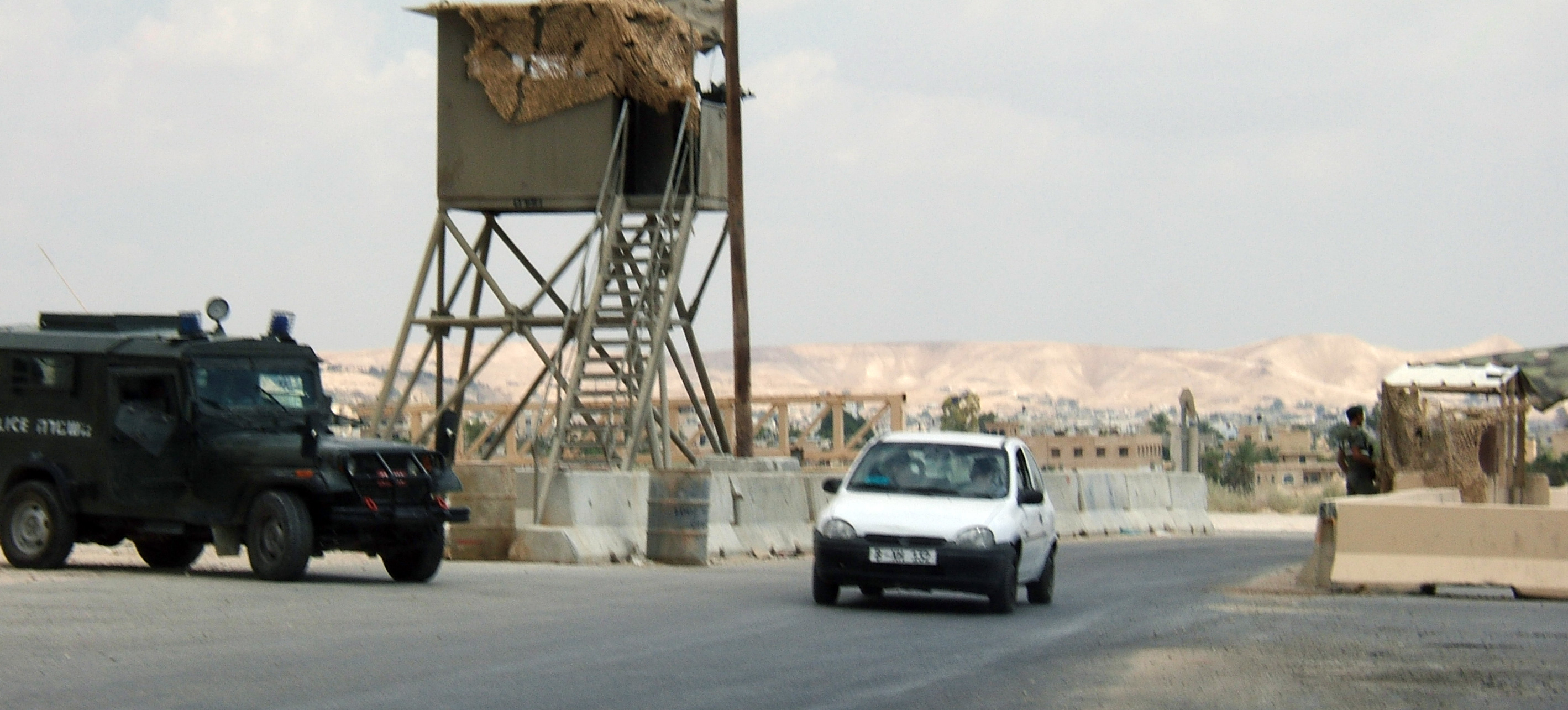 Checkpoint before entering Jericho from the south. Photo taken in Palestine 2005 by myself (Bantosh).